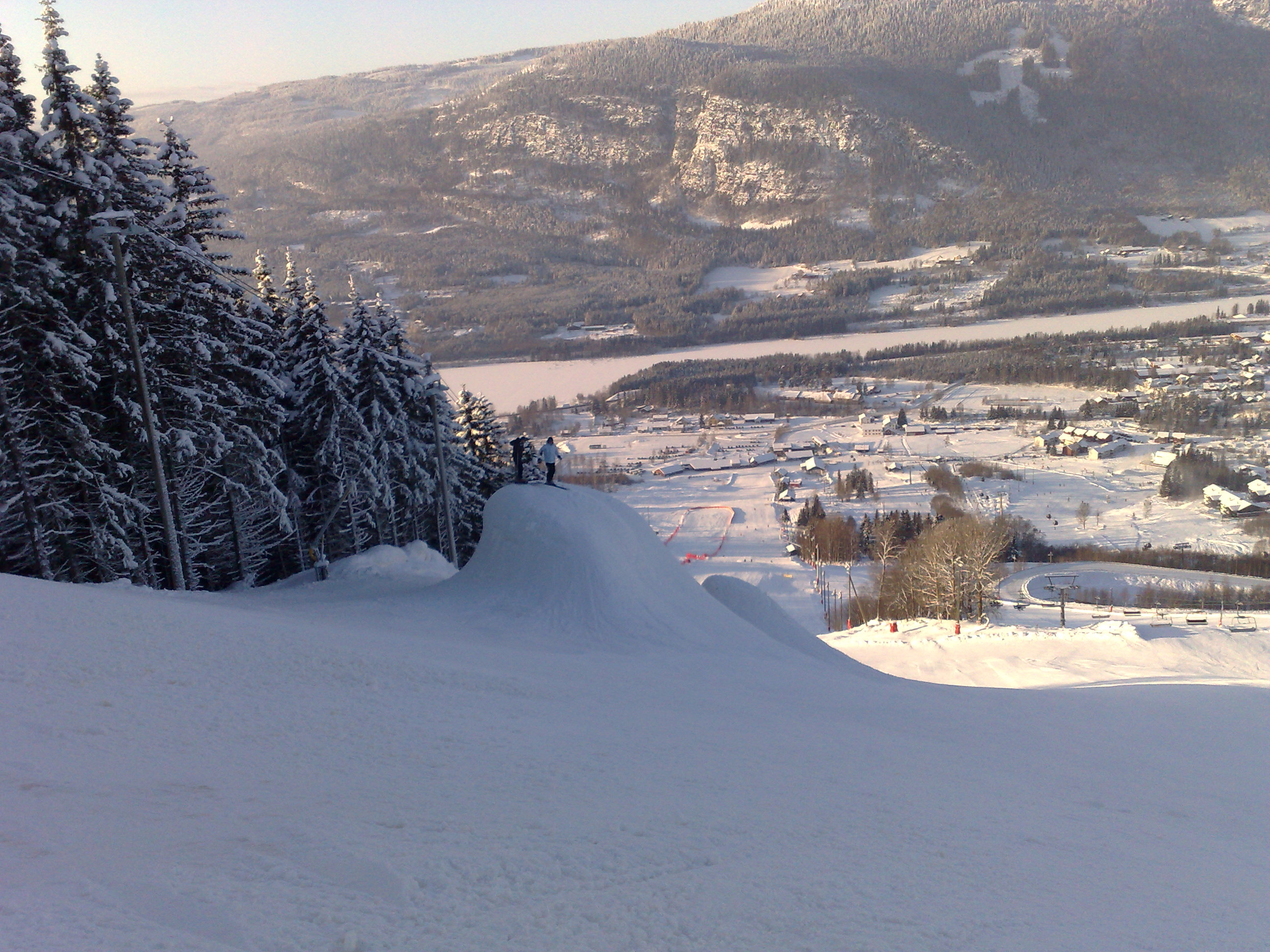 Hafjell is a village and a ski resort in Norway, in the Øyer municipality in the county of Oppland. Hafjell hosted the alpine skiing technical events (giant slalom and slalom) at the 1994 Winter Olympics.